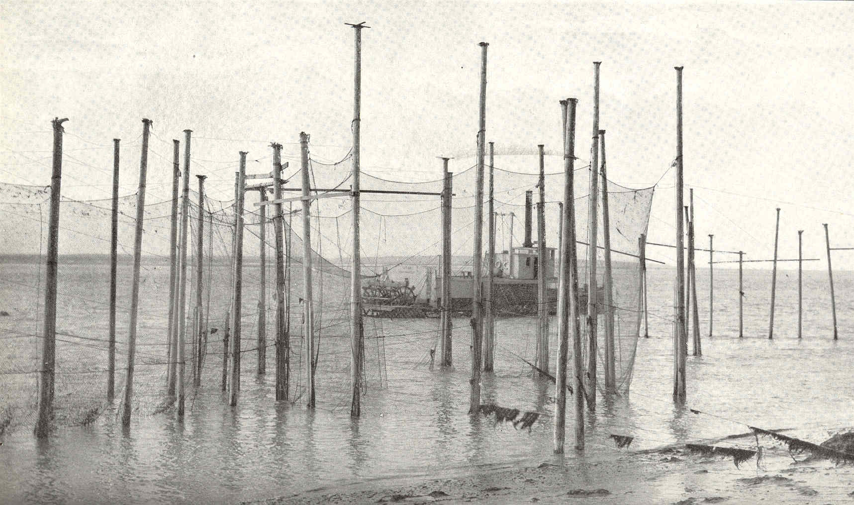 Northern and Inshore Pot of Salmon Trap, Belonging to Alaska Packers Association, Near Graveyard Point, Kvichak Bay. View from beach at low tide, showing tunnel down, steamer Sayak at anchor behond Subject: Salmon fisheires, Fish traps, Kvichak Bay (Alaska), Sayak (Steamboat) Geographic Subject: United States--Alaska--Kvichak Bay Tag: Commercial Fisheries